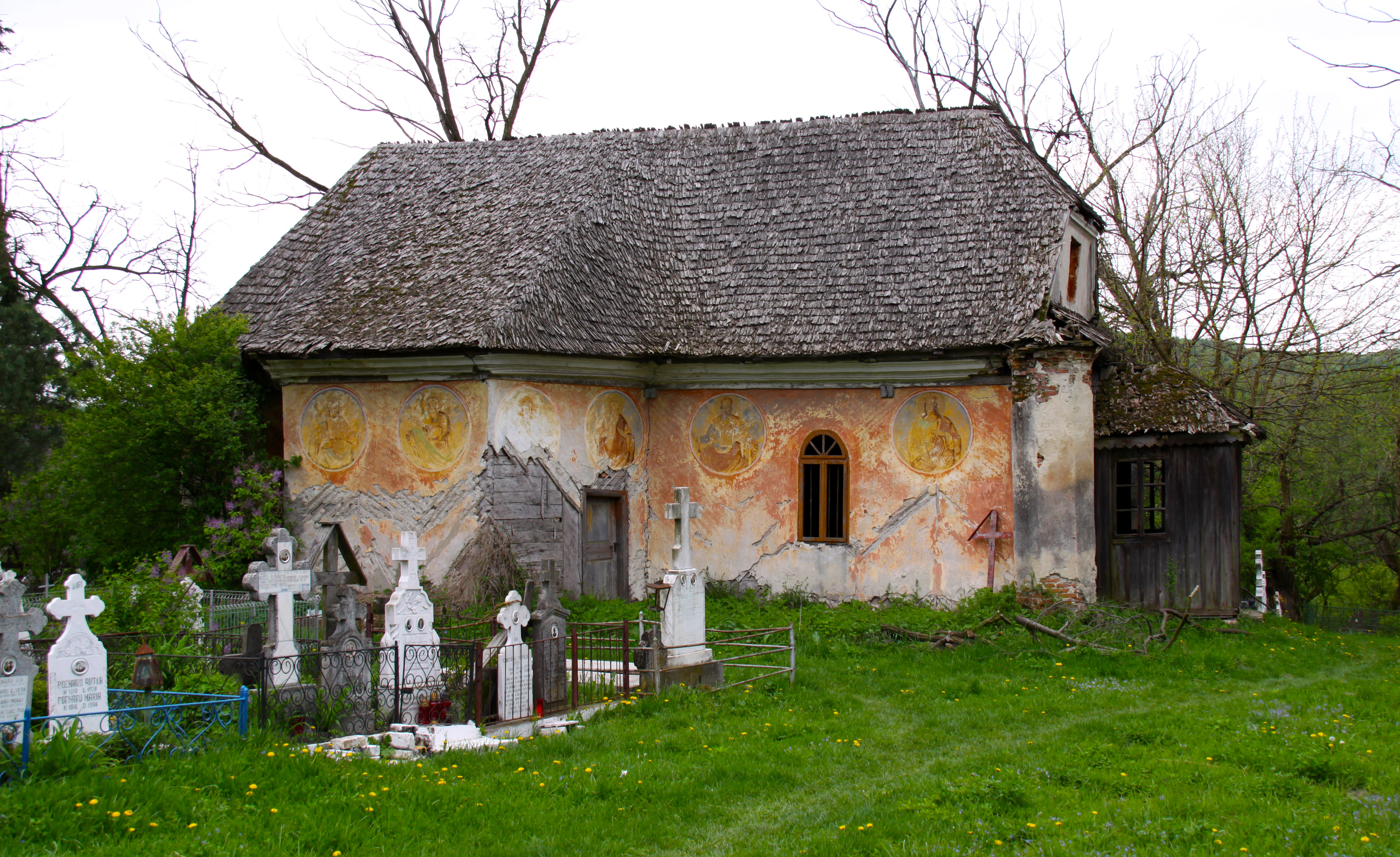 Şirineasa, Vâlcea county, Romania: the wooden church, North side.